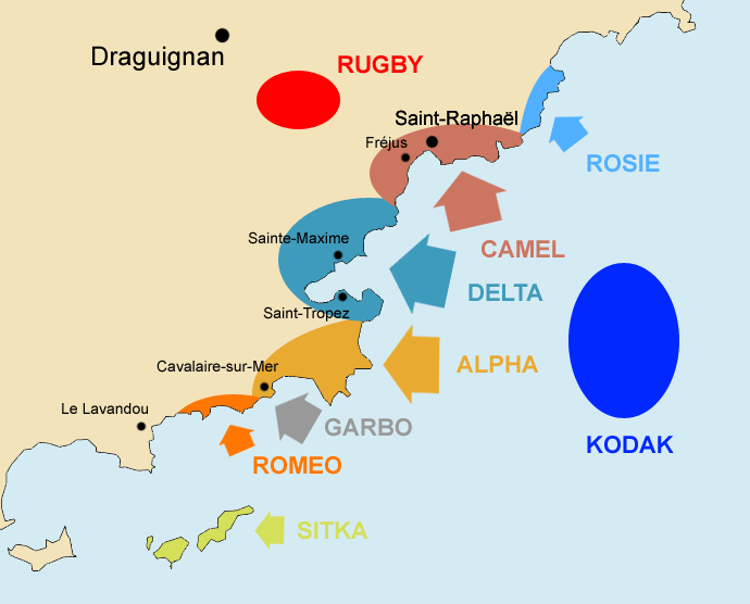 Operation Dragoon was the Allied invasion of southern France, on 15 August 1944, as part of World War II. Kodak : General Truscott. Groups Alpha, Camel and Delta forces. Alpha : General O’Daniel United States - Free France Camel : General Dalhquist United States Delta : General Eagles United States Sitka : Colonel Walker United States - Canada. Special forces. Garbo : General De Lattre de Tassigny Free France Romeo : Lieutenant-colonel Bouvier Free France Rosie : Capitaine de corvette Sénot Free France Rugby : General Frederick United States - United Kingdom. Operation Dove. Note: This is the current names of the towns and cities, they were different in 1944.